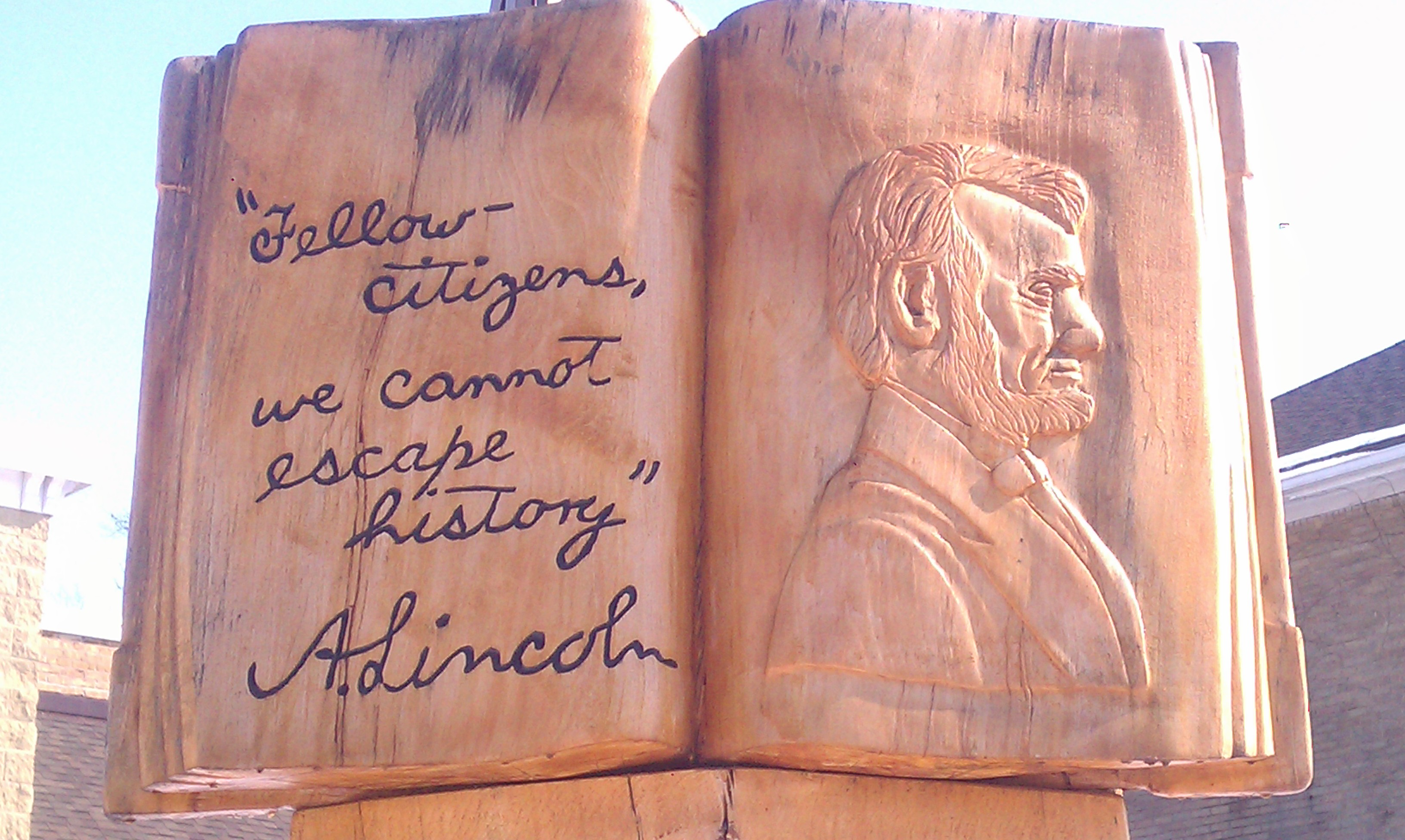 Abraham Lincoln Book Tree Sculpture - McHenry County Historical Museum